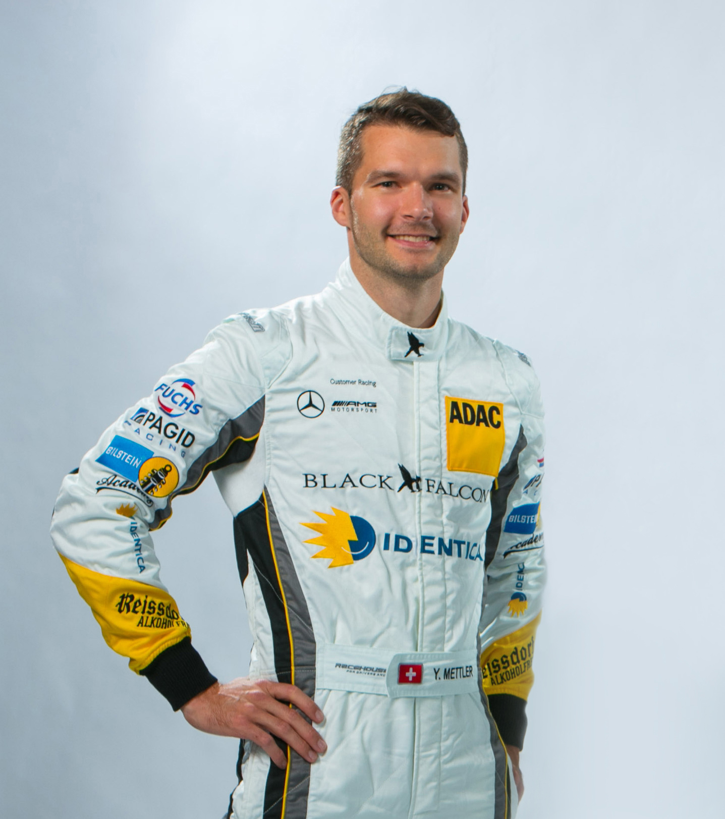 A portrait shot of Yannick Mettler taken during the 24h race at the Nürburgring in 2019